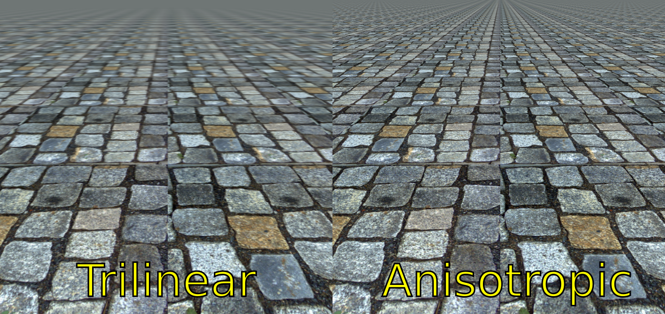 Comparision of anisotropic and trilinear filtering